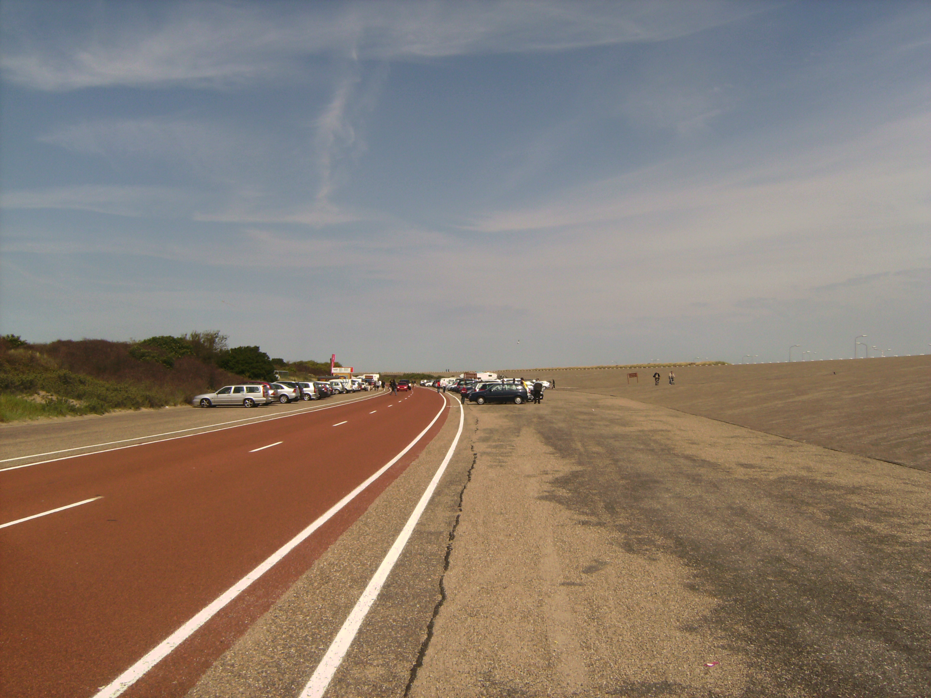 Brouwersdam